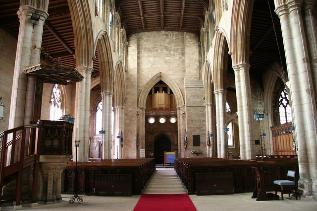 St.Denys' nave Looking west in the fourteenth century nave of St.Denys' church